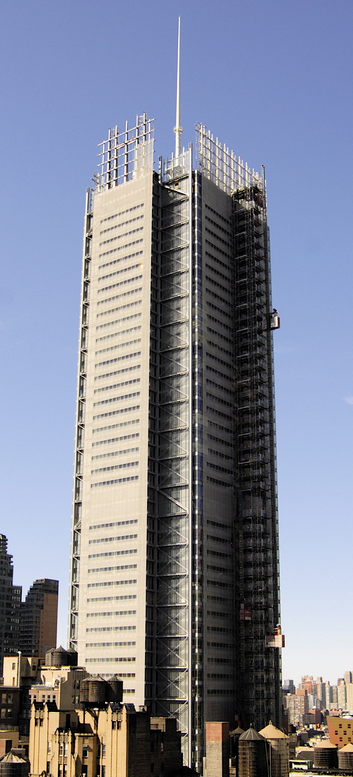 Yup, that's as straight as I could get it, photoshop and all. That consumer-grade Nikkor wide-angle zoom has all sorts of annoying distortion. Looking forward to something that renders a little flatter.